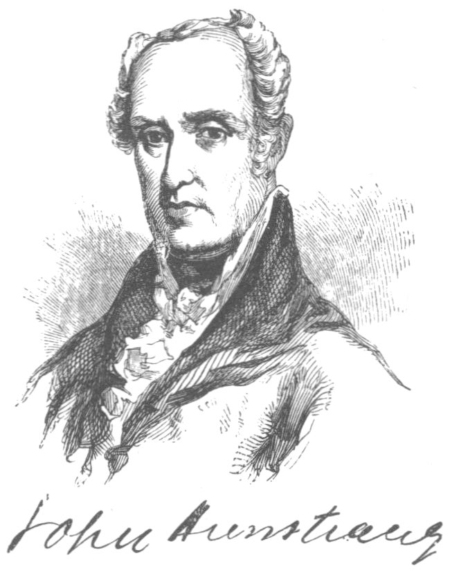 Portrait of Major General John Armstrong Sr. of Pennyslvania.